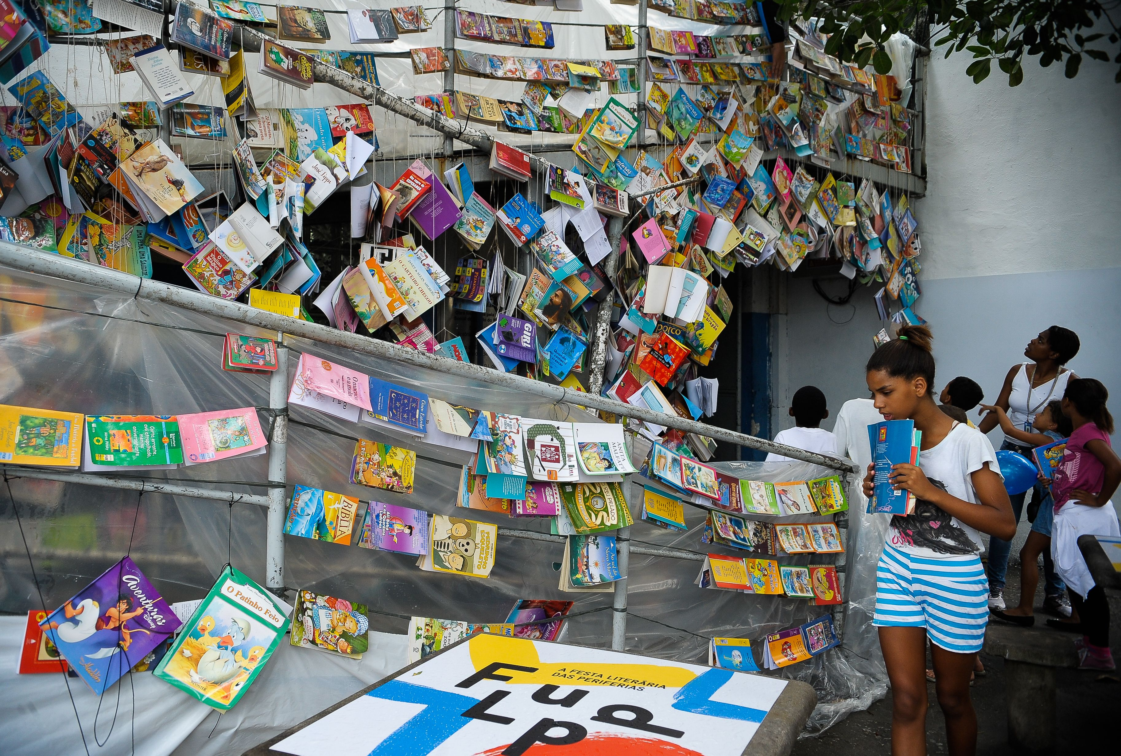 Photo by Tomaz Silva/Agência Brasil CCBY3.0